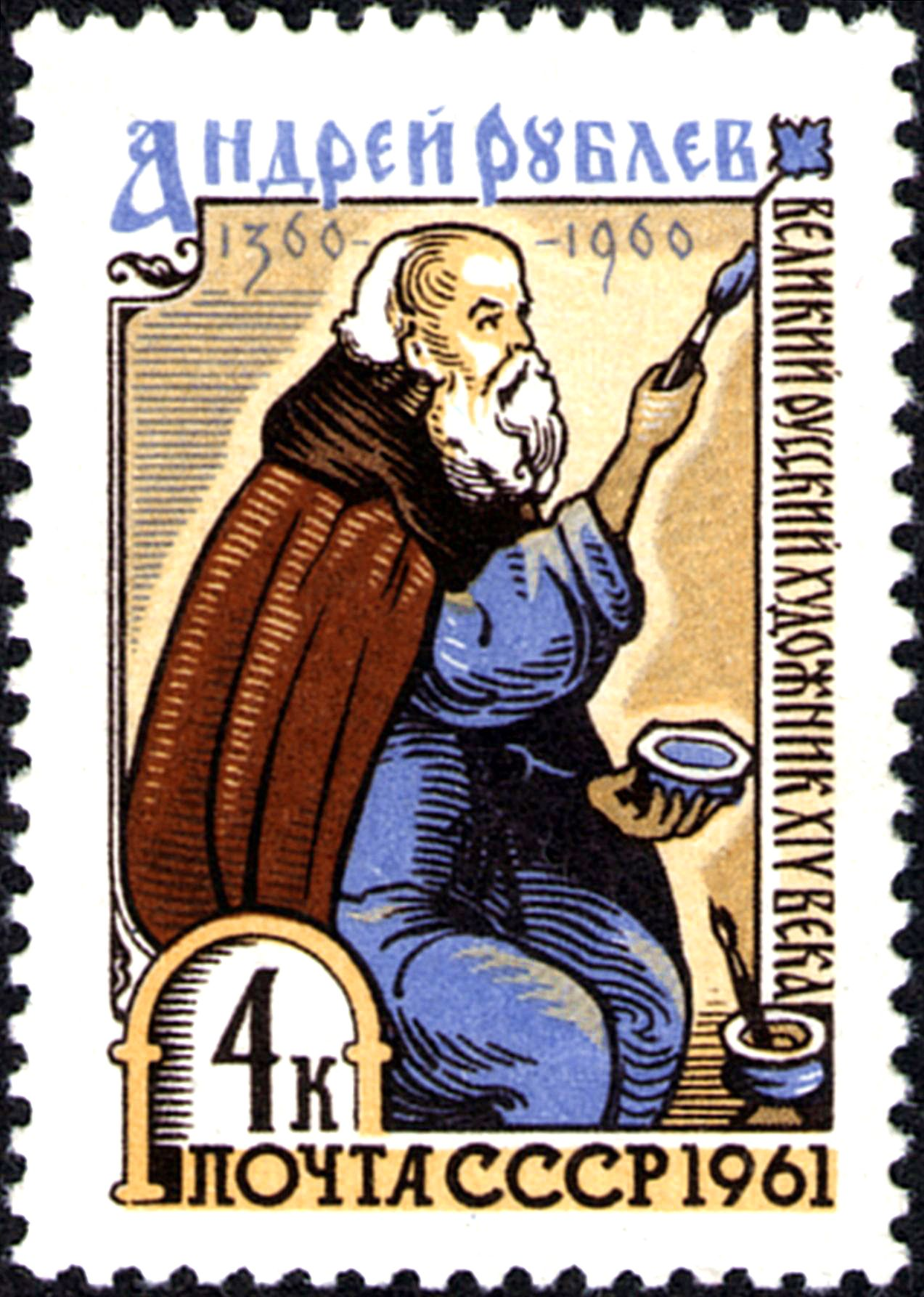 600th birth anniversary of the Russian icon-painter Andrei Rublev (ca. 1360 – 1428).Andrei Rublev Decorates a Church with Writing the Icon of Christ the Saviour. The miniature by an unknown artist from the manuscript book The Life of Saint Venerable Sergius of Radonezh by Epiphanius the Wise. (1590–1605). Russian State Library, the Depository of Manuscripts. The picture on the stamp is the flopped image of the original miniature[1]. The stamp of the Soviet Union, 4 kopecks, 13 March 1961, CPA Catalogue No 2553, Michel No 2463, Scott No 2453, Yvert No 2395. Offset printing. Perforation: comb 12½×12. Size of the stamp: 26×37 mm. Print run: 2,500,000.